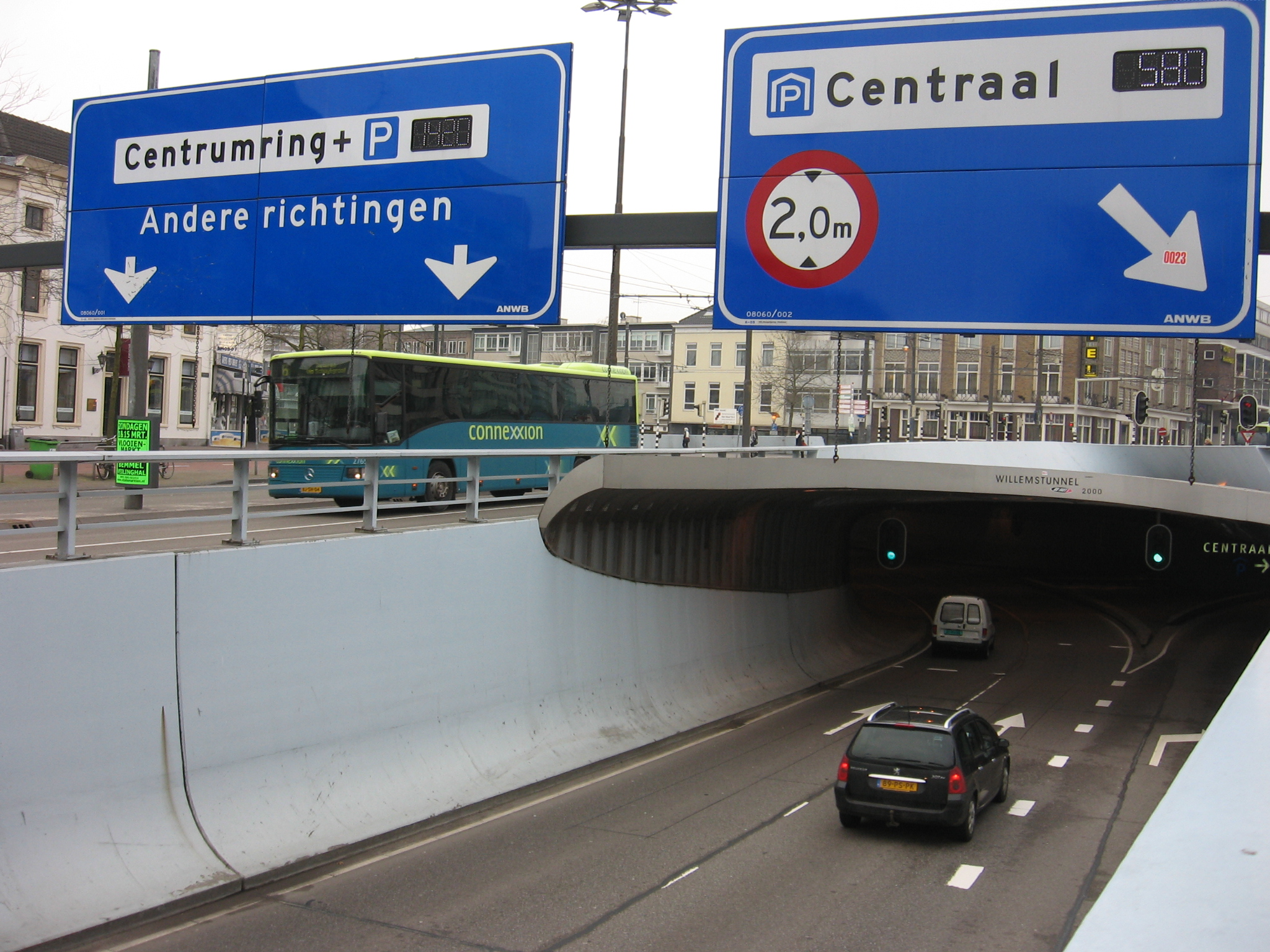 Arnhem - Willemstunnel